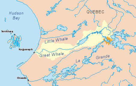 Drainage basin of the Great Whale River, Quebec, Canada.